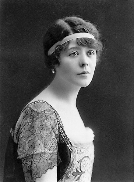 Camille Clifford